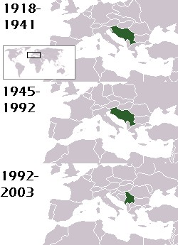 Map of the three Yugoslavias